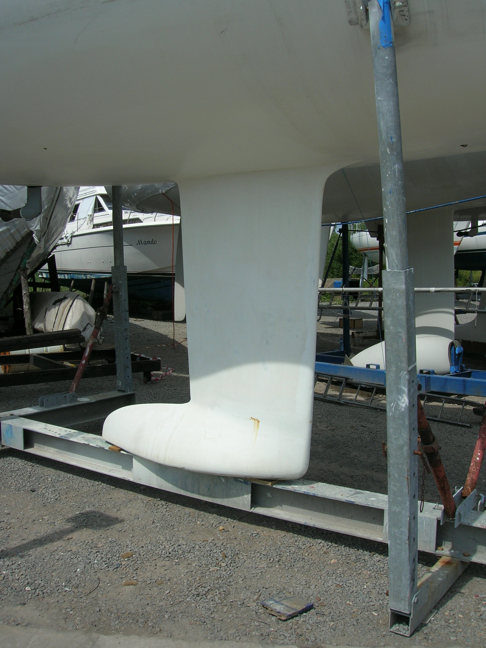 Keel bulb designed to lower the centre of gravity.